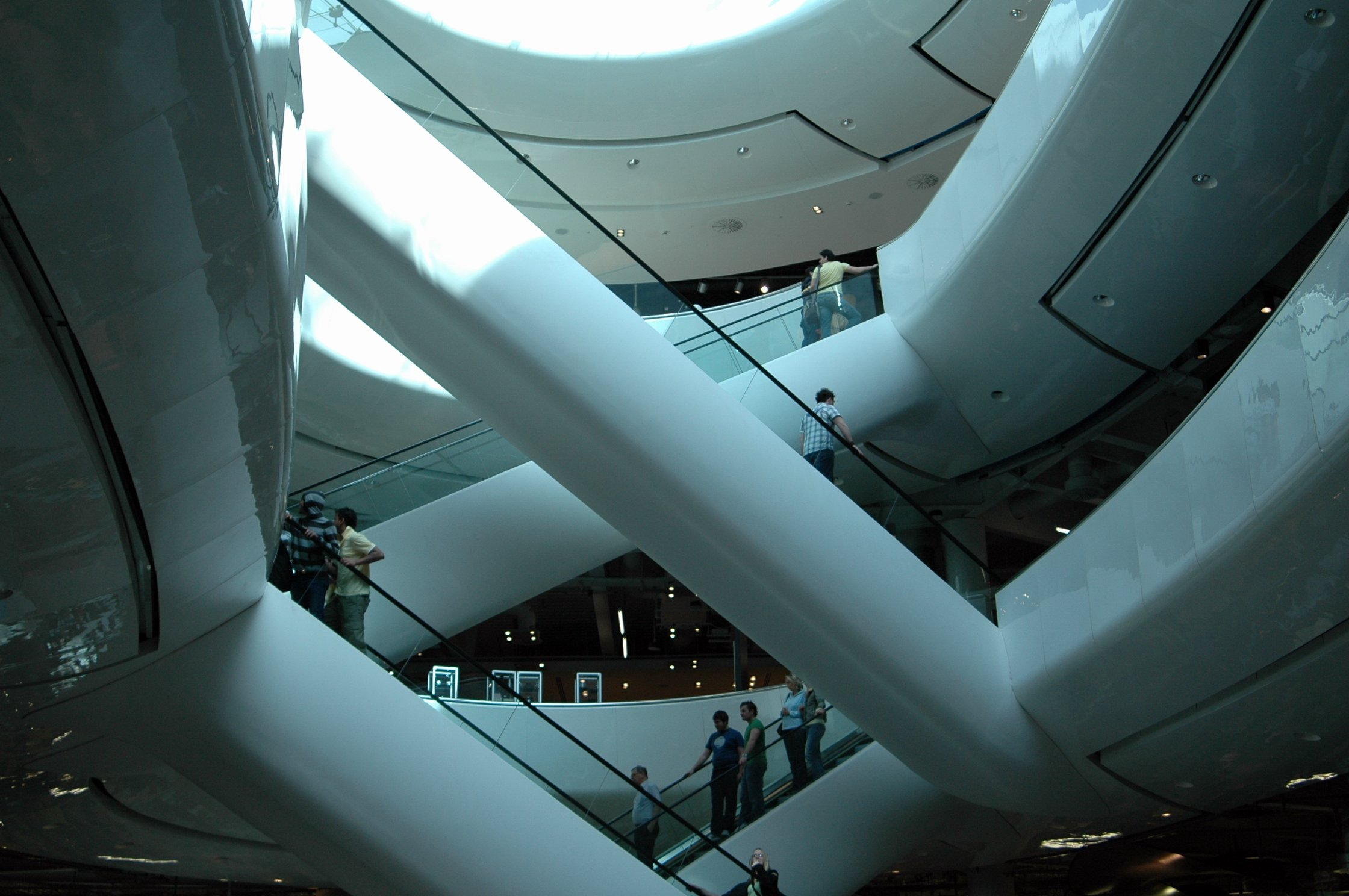 These are escalators in the newly built Selfridges store in Birmingham